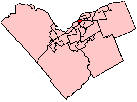 Locator map for Somerset Ward in Ottawa,Ontario